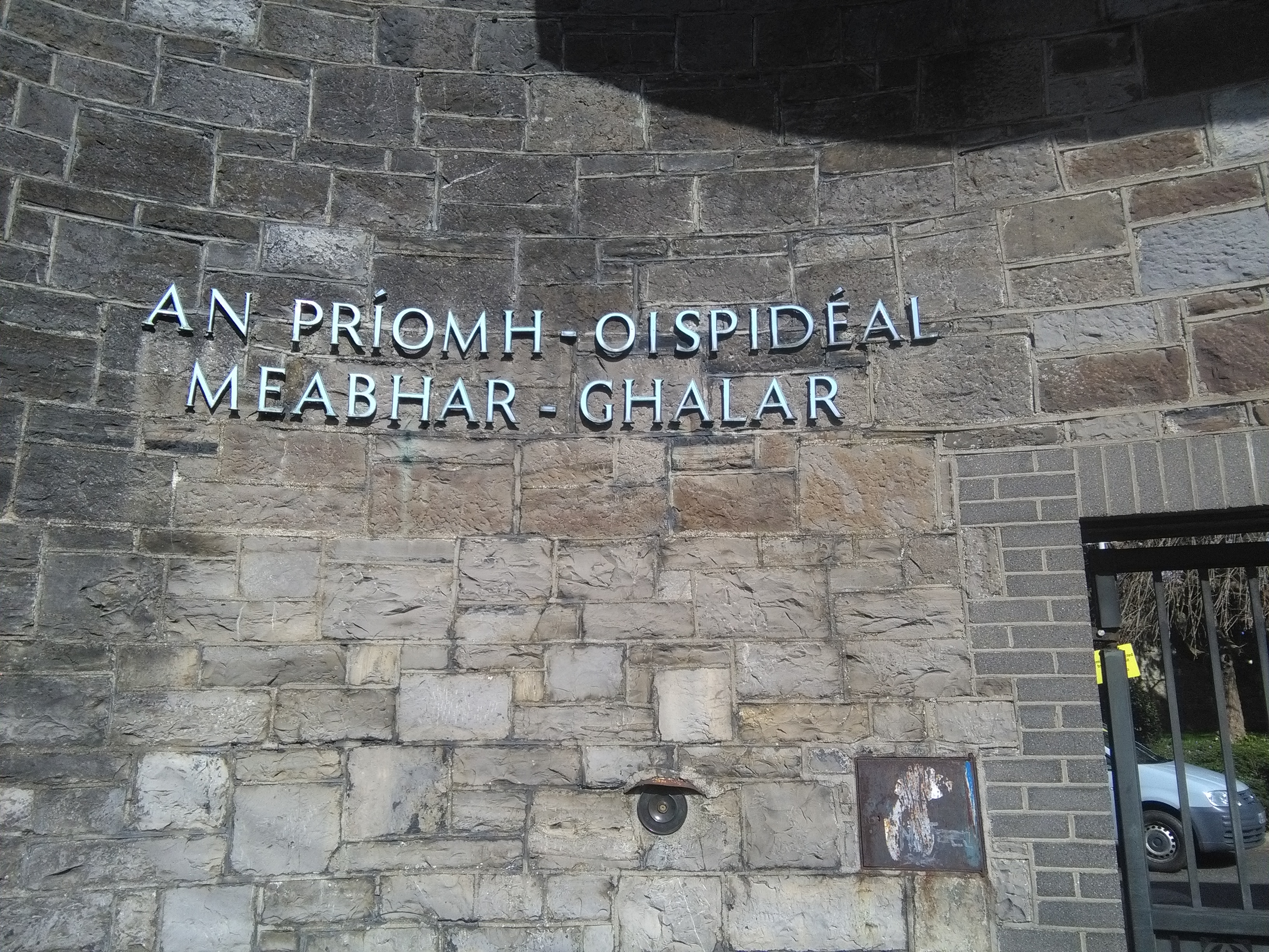 Central Mental Hospital. Dublin